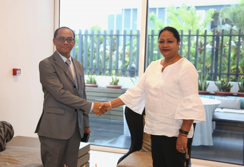 Dionísio Babo, Minister for Foreign Affairs and Premila Kumar, Minister of Tourism, Trade, Industry, Local government and Community development of Fiji